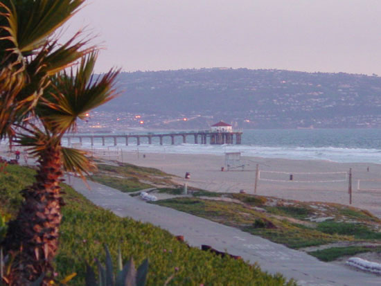 A view from the south of the pier at Manhattan Beach, California from Joelle Leder Photography